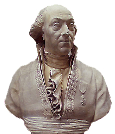 Philippe-Isidore Picot de Lapeyrouse's bust (1744-1818)